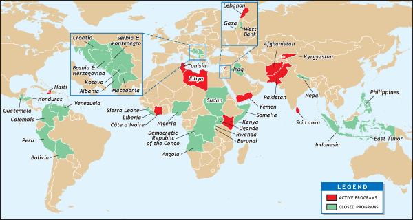 World map with designated OTI countries